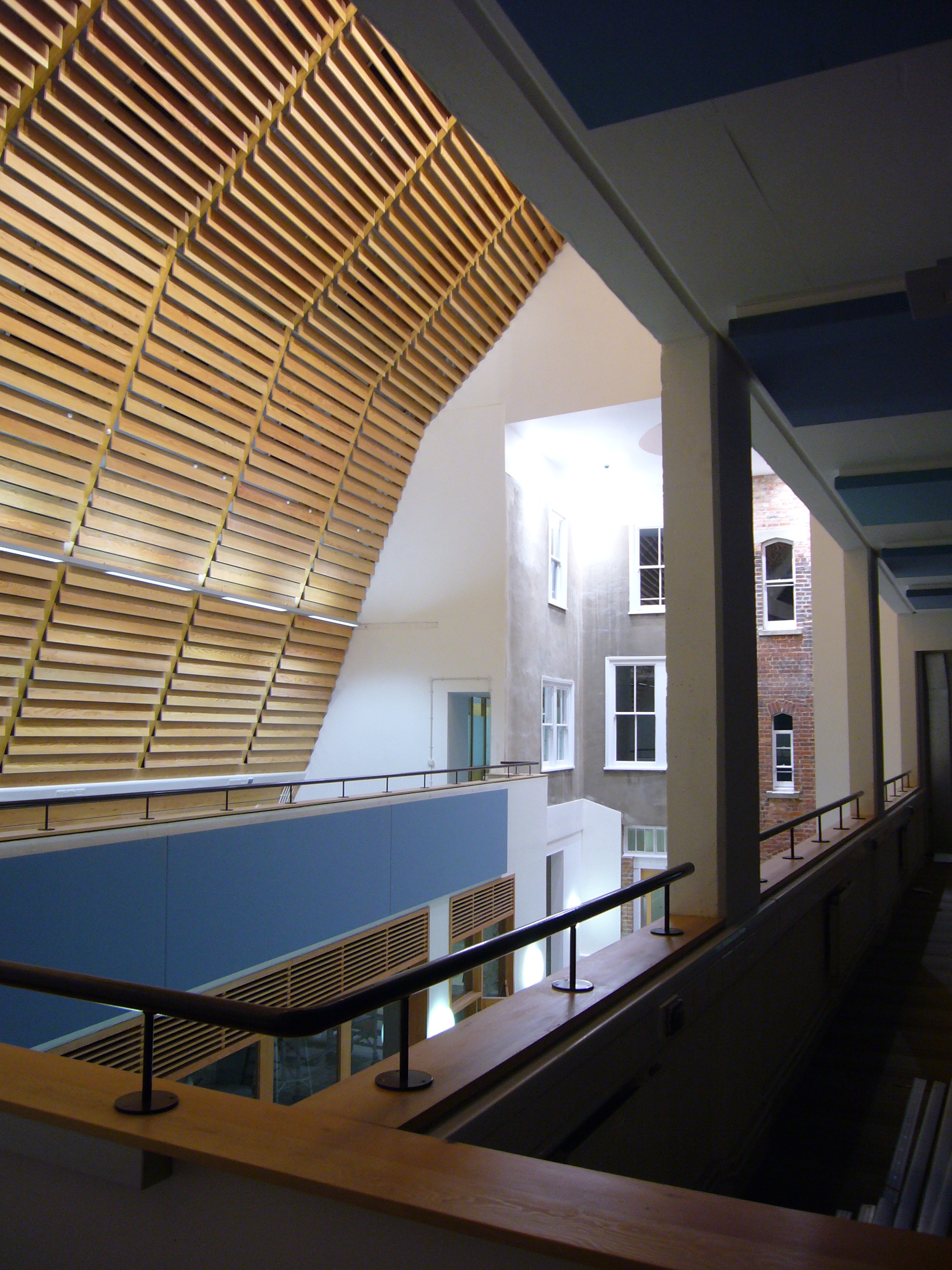 Central atrium interior of new faculty of classics building